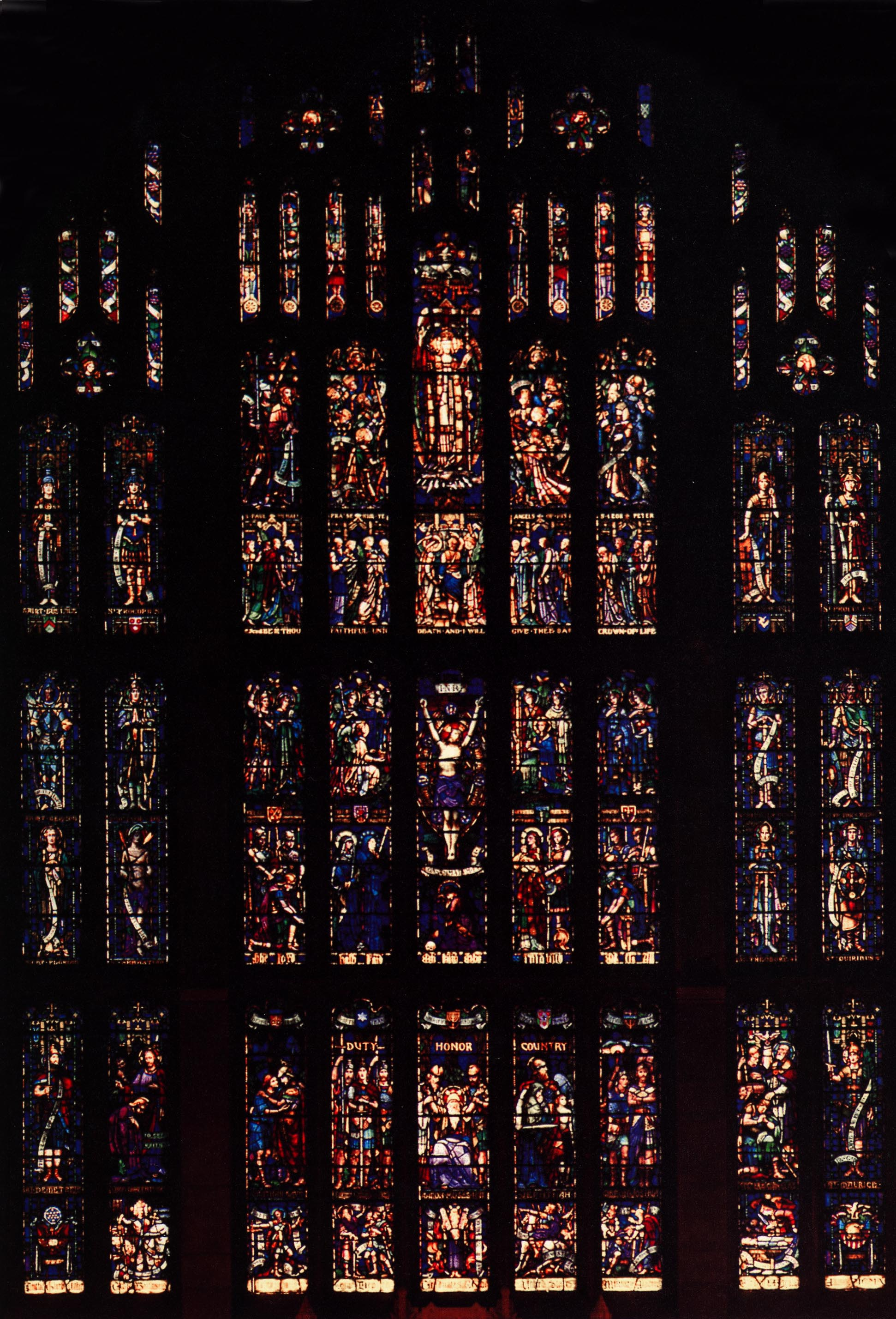 Cadet Chapel, United States Military Academy, West Point, NY Window designed by William Willet, Fabricated by Willet Studio